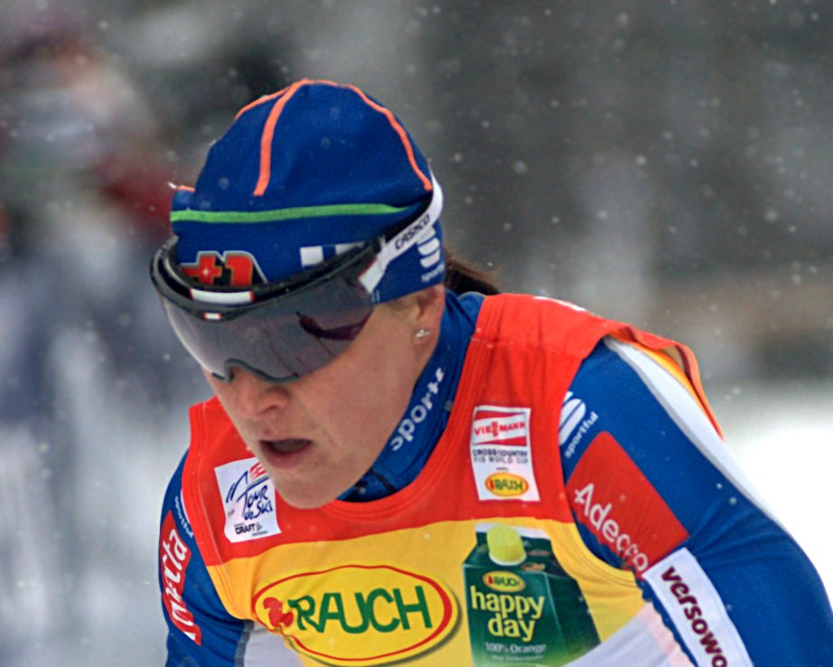 Aino Kaisa Saarinen at the Tour de Ski 2010 in Oberhof